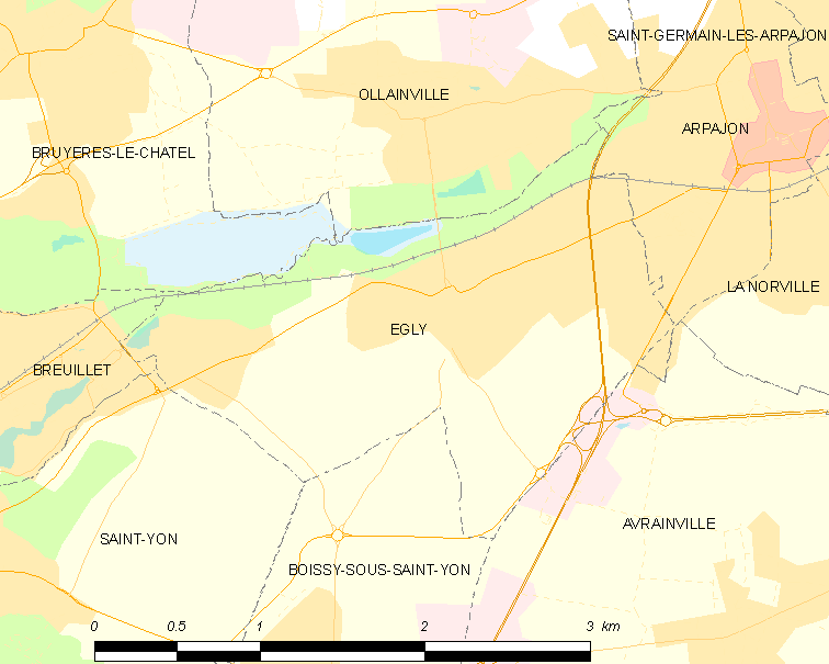 Map of French municipality Égly